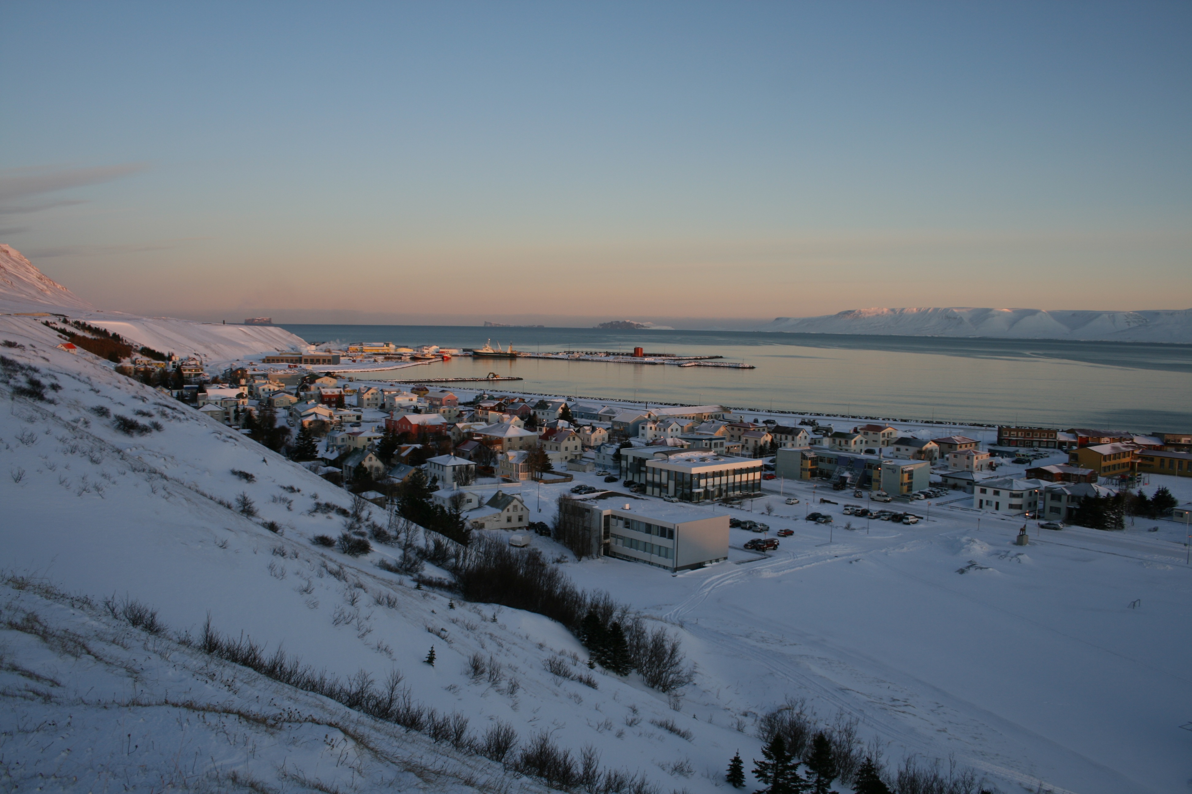 "Old town" Sauðárkrókur and harbor area at wintertime.